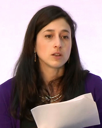 This panel will bring together voices from government, academia and the private and non-profit sectors to discuss each sector’s role in shaping an economy that works for people. SARA HOROWITZ Executive Director & Founder, Freelancers Union CECILIA MUÑOZ Director, White House Domestic Policy Council BETSEY STEVENSON Associate Professor of Public Policy, University of Michigan MODERATED BY CATHERINE RAMPELL Opinion Writer, Washington Post